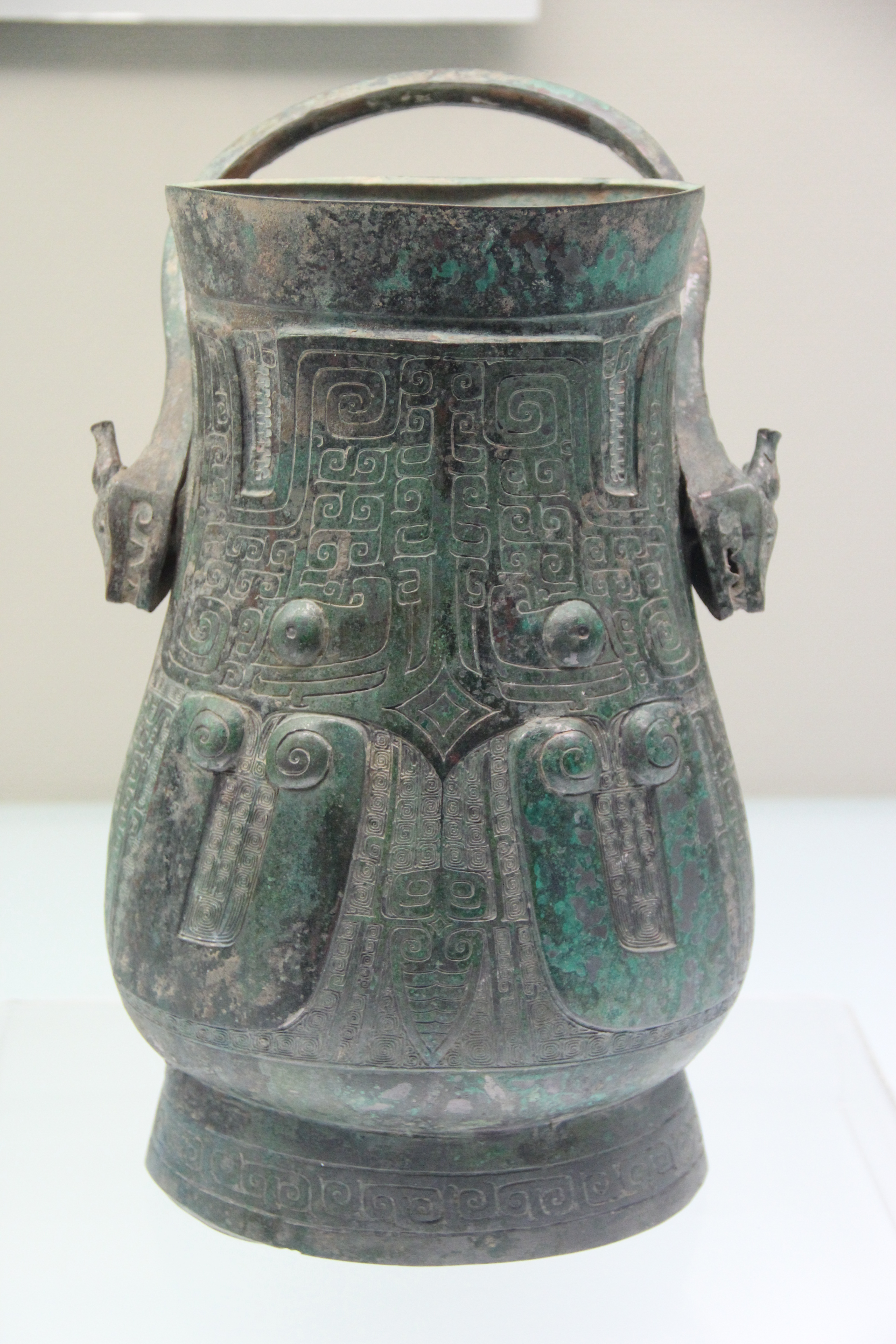 Shanxi Provincial Museum, Taiyuan. Complete indexed photo collection at .